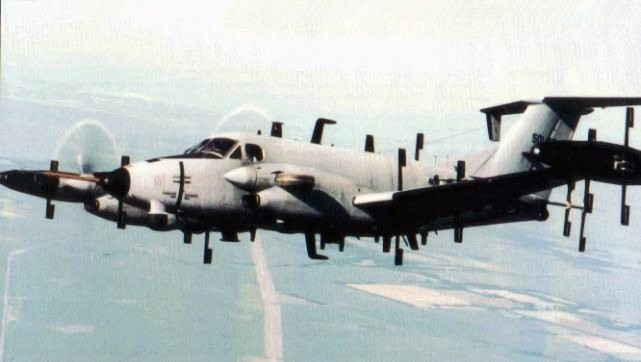 A U.S. Army Beechcraft RC-12N Huron in flight.